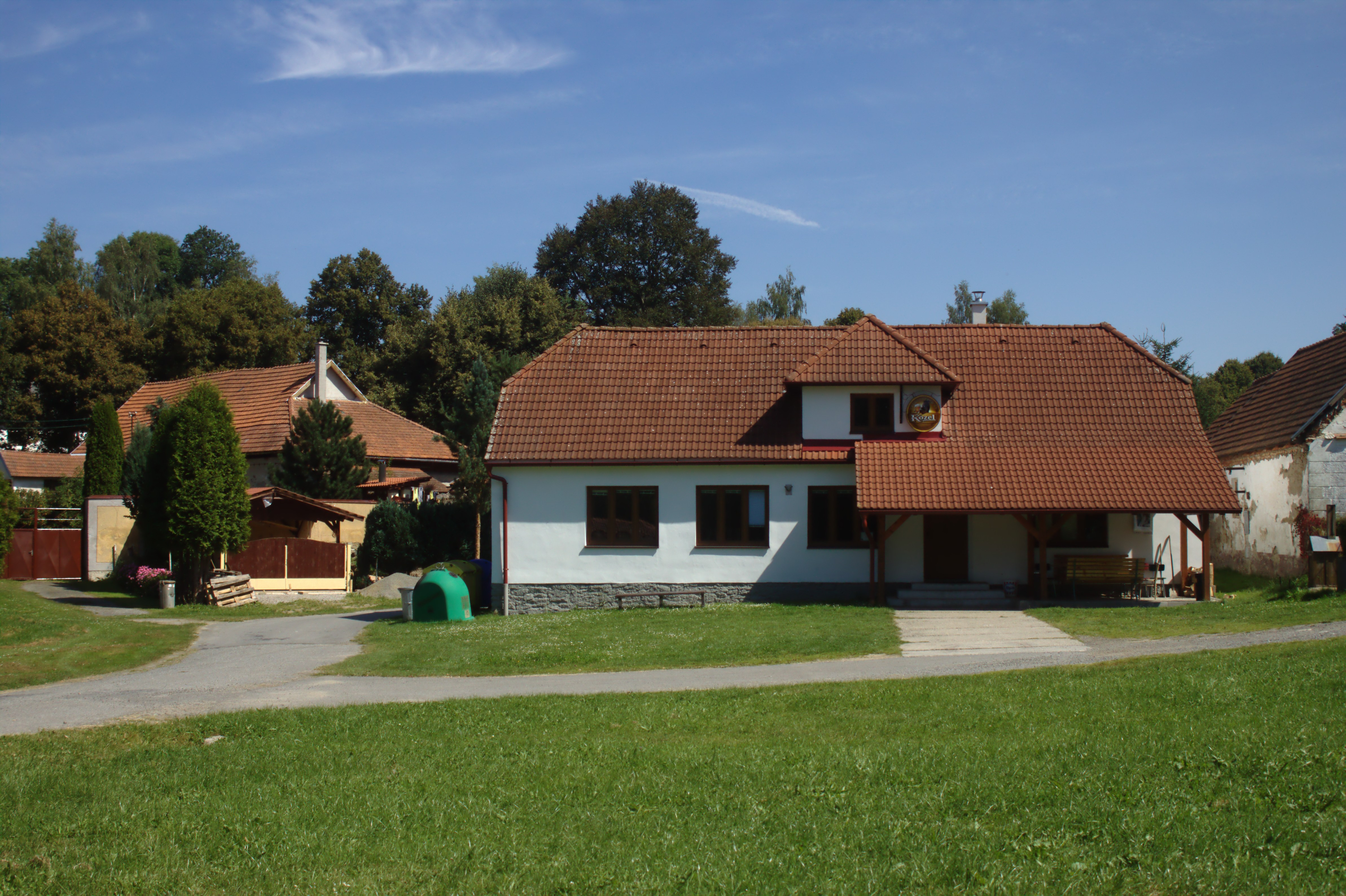 A pub located in the Bedřichov village, located near Pacov, CZ